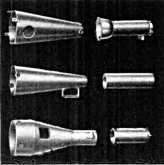 Magnetic shields for cathode ray tubes (CRTs) made of mu metal for use in oscilloscopes, from an ad by James Millen Mfg. Co. in a 1945 electronics magazine. The electron beams used in cathode ray tubes to draw on the tube's screen could be deflected by magnetic fields from transformers and other electronic components in the oscilloscope's insides. So the sides of the long CRT tube were surrounded by a shield made of mu metal. Mu metal is a high permeability nickel-iron alloy which could shield against magnetic fields by conducting the magnetic field lines around the shielded space.